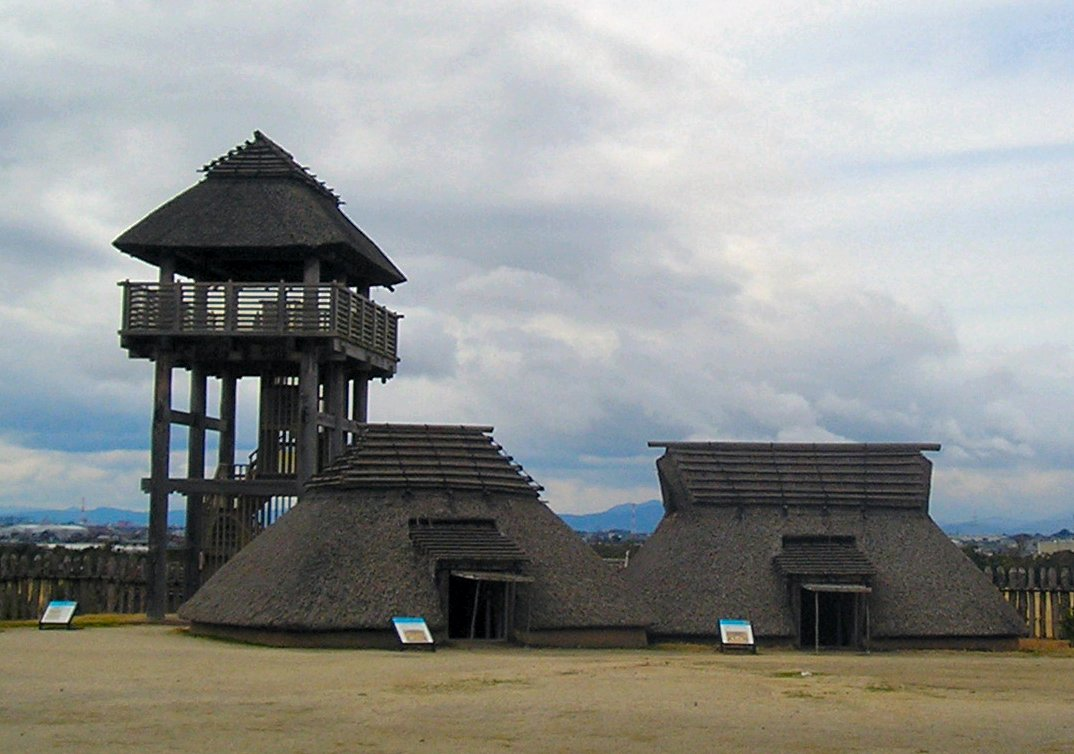 A lookout tower and dwellings at Yoshinogari Ancient Ruins, Saga, Japan